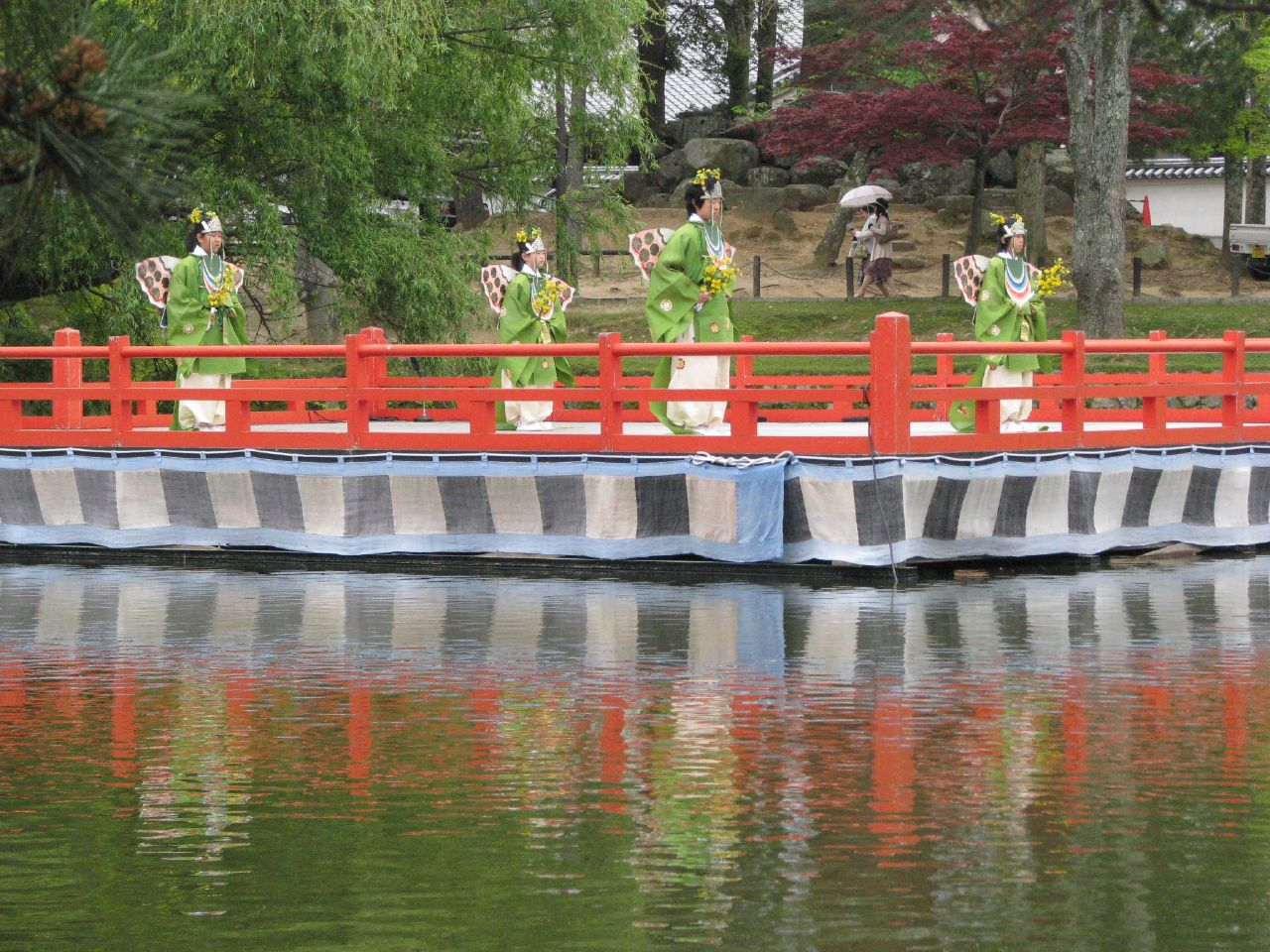 Traditional danses during the festival conducted in commemoration of the anniversary of the demise of Emperor Shomu.